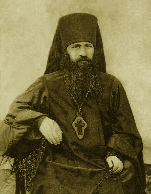 Arefa Verhotursky (1865-1903)